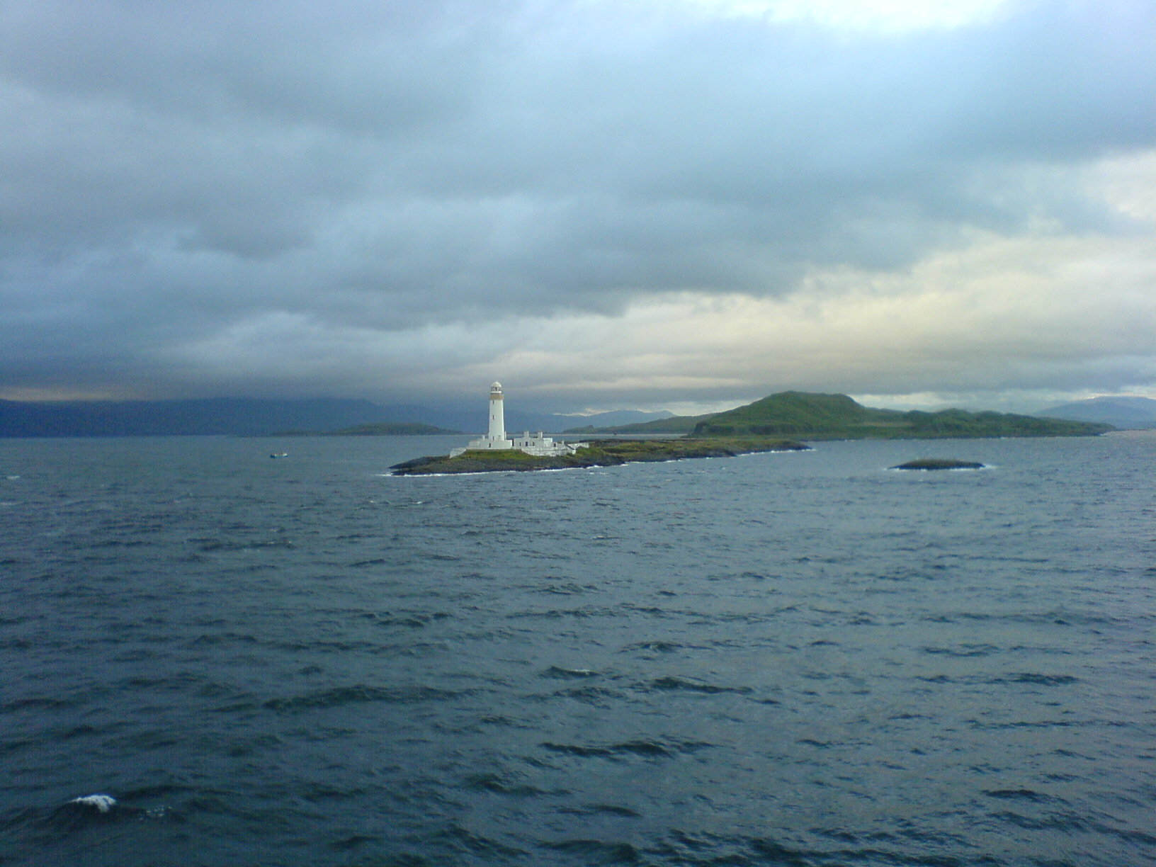 The lighthouse on Eilean Musdile south of Lismore, looking north from the Oban to Craignure ferry.